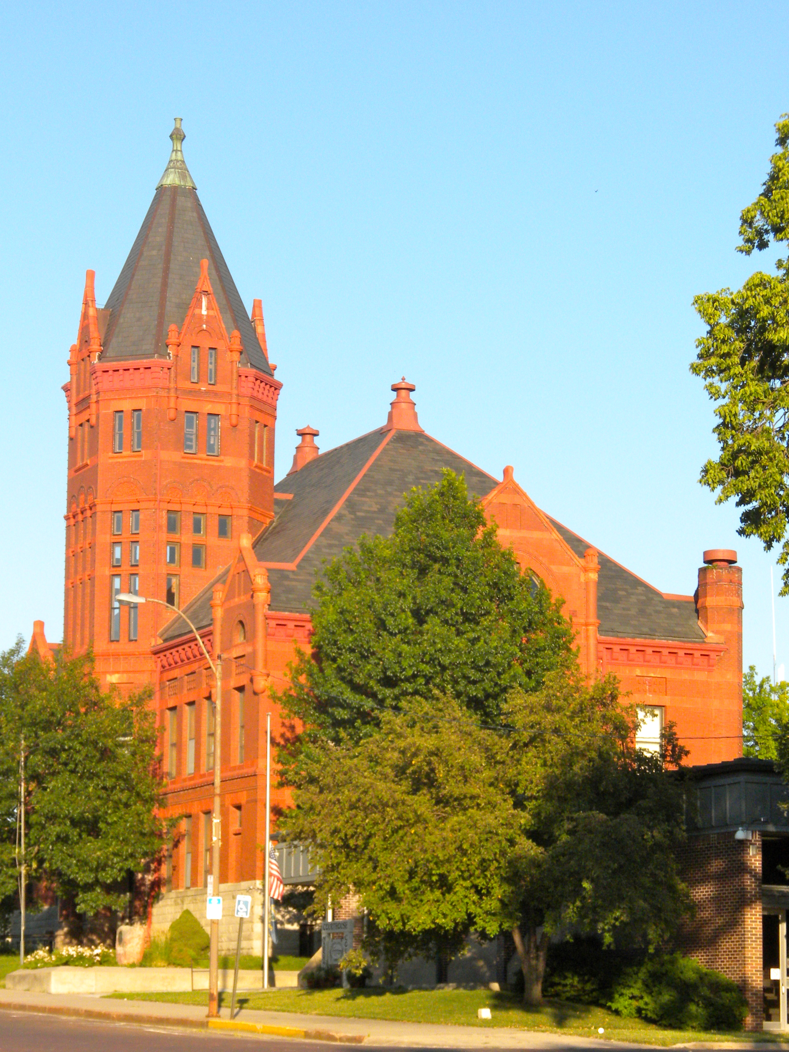 Marshall County (Kansas) Courthouse in Marysville, Kansas. On the NRHP since November 5, 1974. At 1207 Broadway This building currently known as The Marshall County Historical Society. The building holds a Museum and Research Library. It is open to the public.